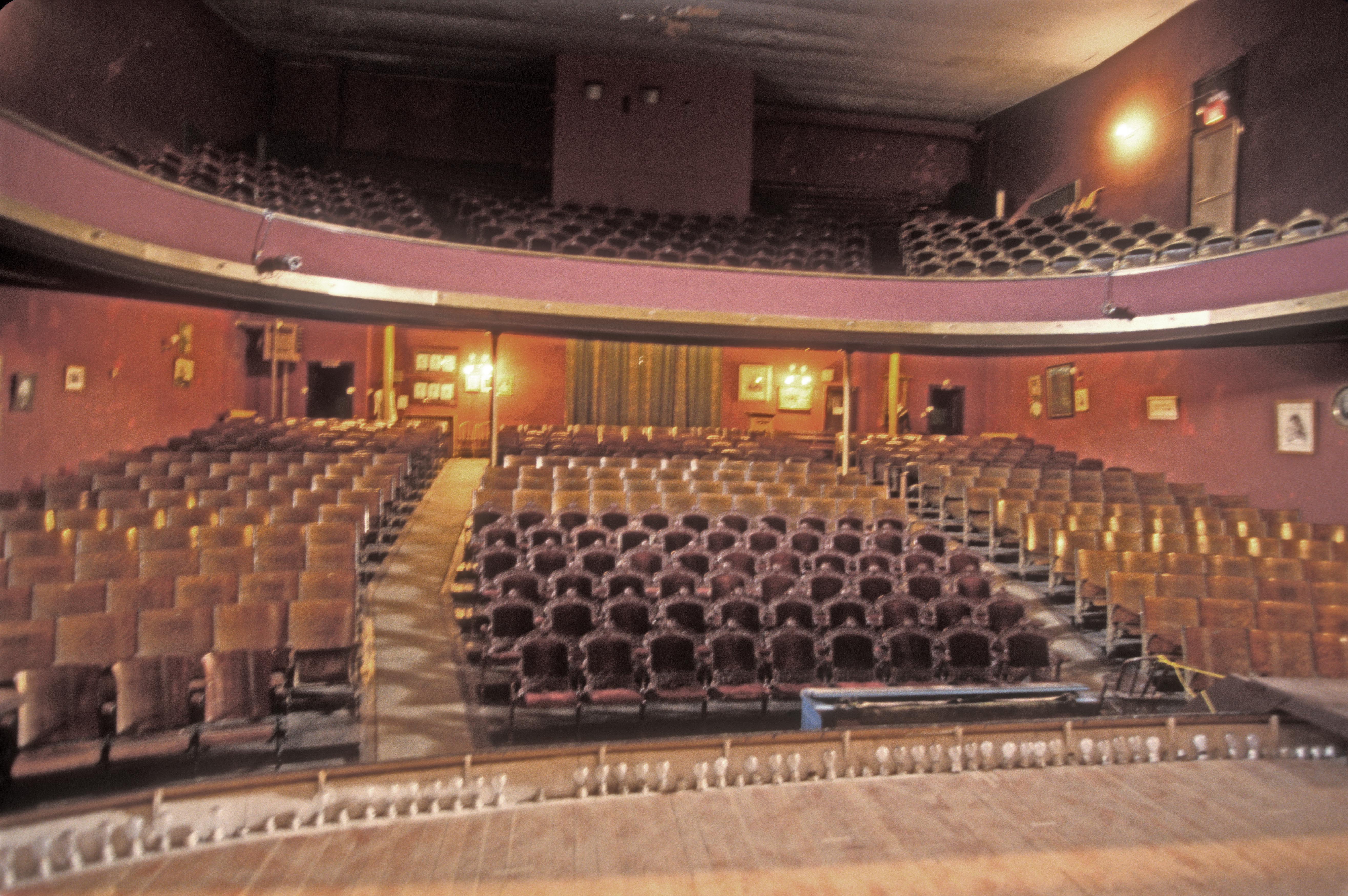 THE OPERA HOUSE WAS SAID TO BE THE FINEST THEATER BETWEEN ST. LOUIS AND SAN FRANCISCO WHEN IT WAS BUILT. IT IS OPEN FOR TOURS DURING THE SUMMER MONTHS.